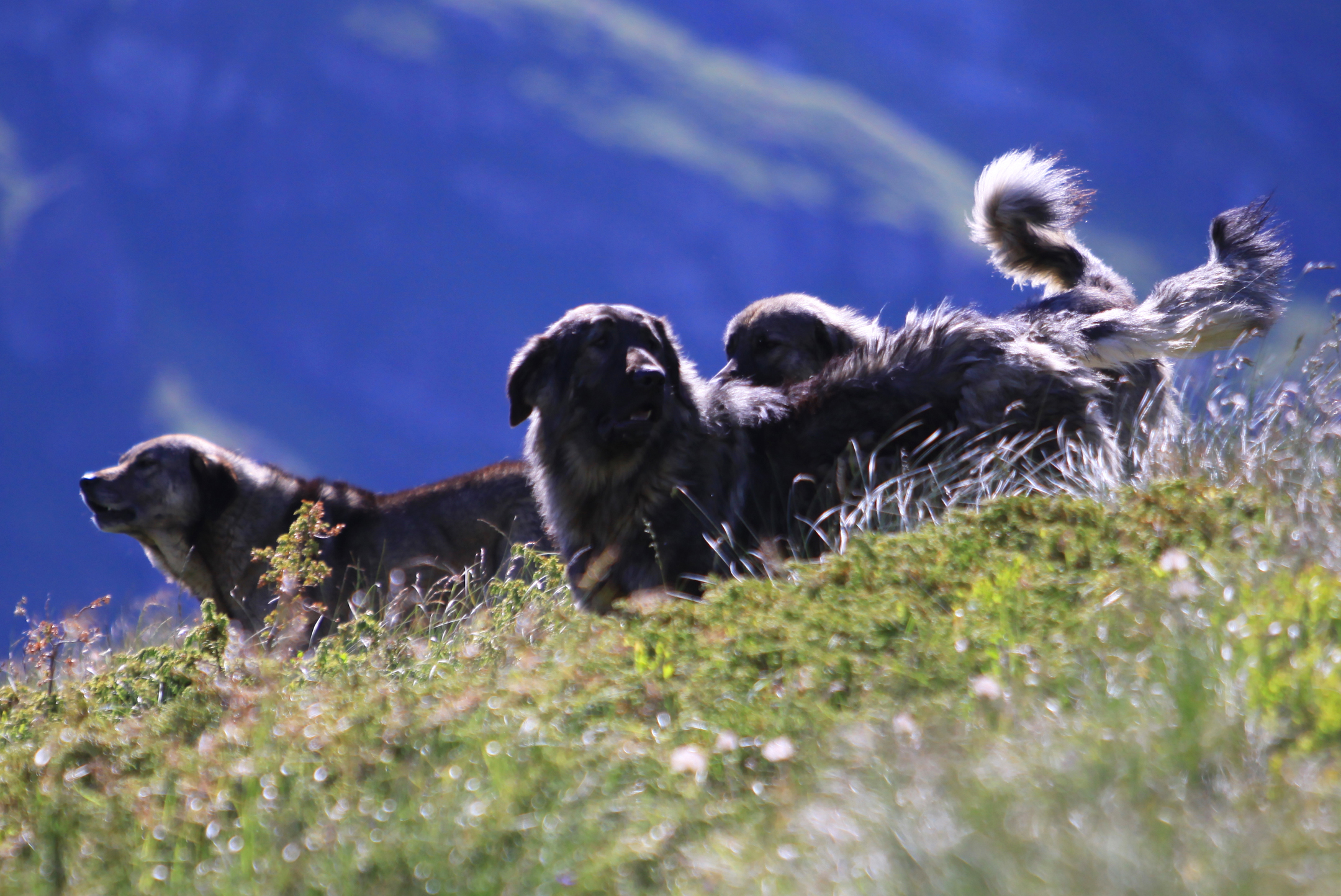 Sharr dogs under Shutman mountain in Brod of Dragash